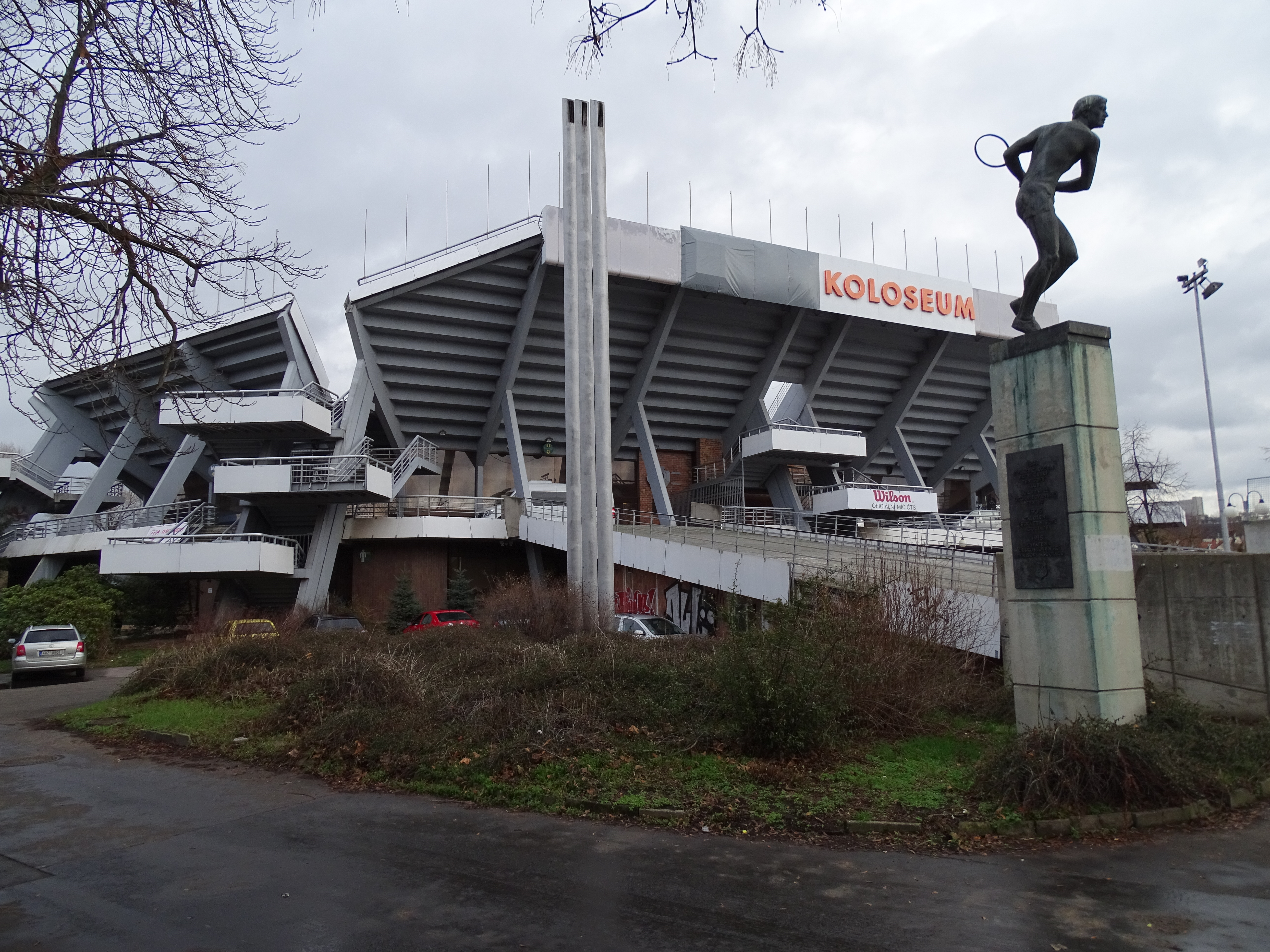 Prague-Holešovice, Czech Republic. Štvanice island, tennis courts, bronze statue of a Tennist by Ladislav Janouch.